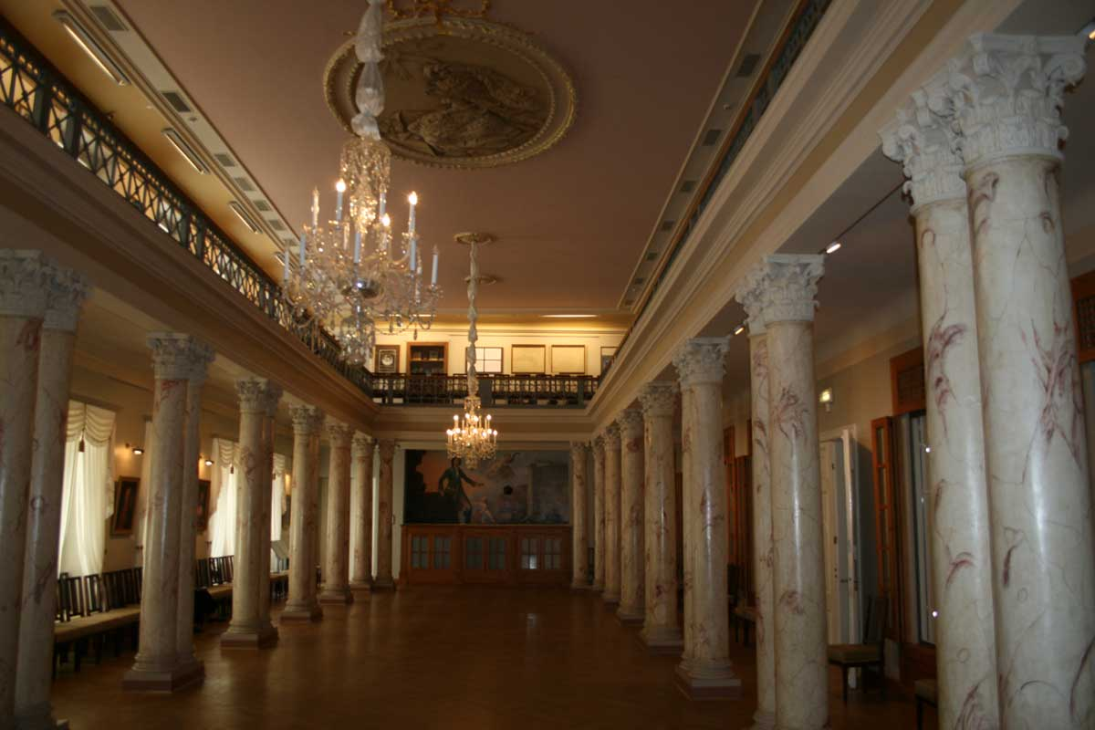 Interior view of the Museum of History of Riga and Navigation, Latvia